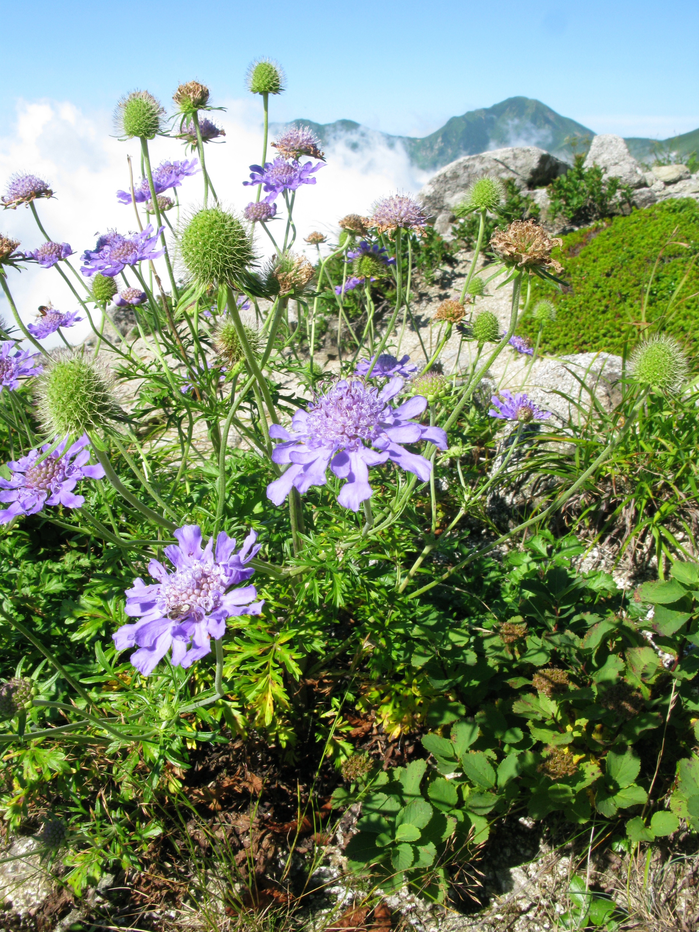 Scabiosa japonica var. alpina, Mt. Iide, Fukushima pref., Japan